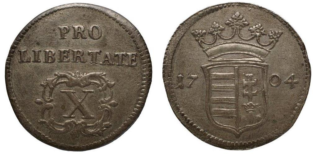 10 poltura coin with two counterstamps, Hungary, Francis II Rákóczi (1704, without mintmark)